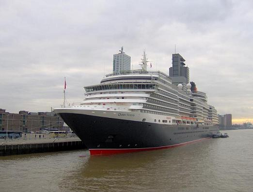 Cunard Line Queen Victoria at the cruise terminal in Rotterdam